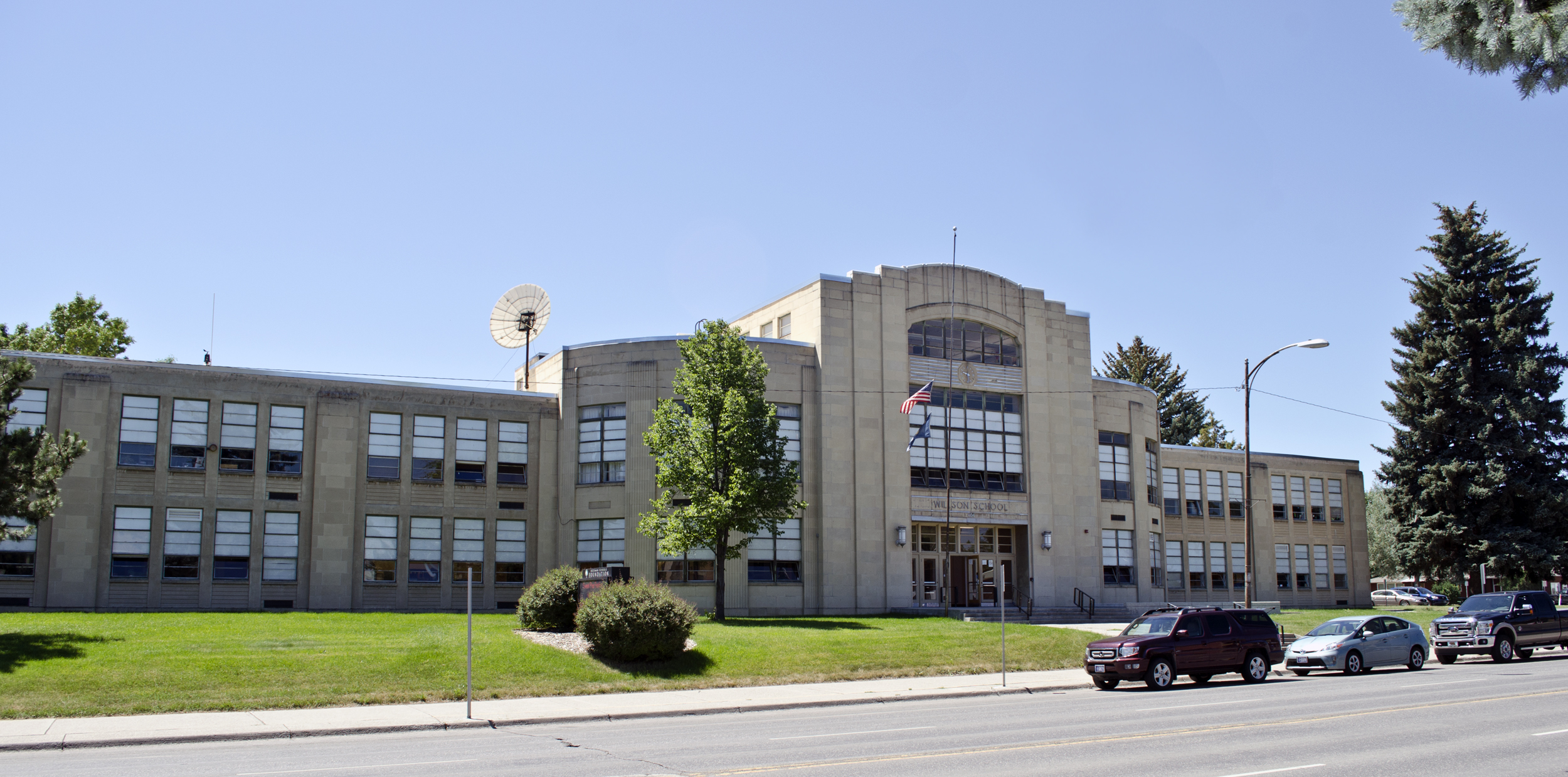 Looking southwest at the entrance of the old Gallatin County High School, 404 W. Main Street, Bozeman, Montana. Designed by local architect Fred Willson (who built much of downtown Bozeman), the small eastern brick structure was was constructed in 1902. The brick structure was extended in 1907. In 1937, the high school was vastly expanded with an Art Deco building, which became the main school building. Both extensions were designed by Willson. In 1956, Gallatin County High School was abandoned when the city constructed Bozeman High School (which still houses the school). The structure was renamed Willson Middle School. The middle school closed in 1991, and the building was occupied by Bridger Alternative High School. In 2009, Bridger Alternative moved to a different building, and the Willson School (as the Art Deco structure is known) now houses administrative offices for the Bozeman Public Schools. The East School (as the original brick building is known) is no longer considered safe due to a lack of fire sprinklers and it does not meed modern earthquake codes; it has been used for storage since 2010. The entire structure was listed on the National Register of Historic Places on January 22, 1988.